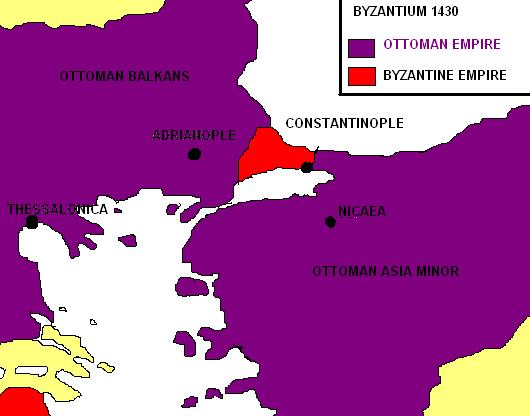 The Byzantine Empire by 1430 (Original text: The Byzantine Empire by 1430 AD GFDL-self )